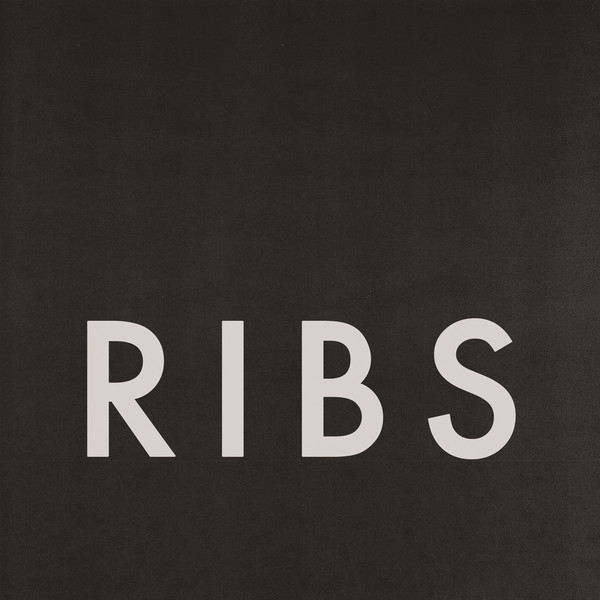 Cover art for "Ribs" by Lorde.